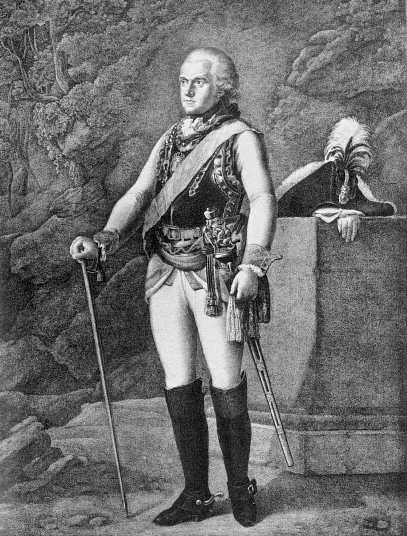 Portrait of Karl August, Grand Duke of Saxe-Weimar-Eisenach (1757-1828)